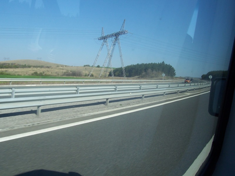 Struma motorway, Bulgaria